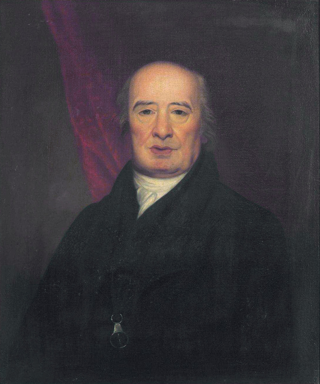 a label to the stretcher says: Thomas Addis Emmet (1764-1827) Irish painter, lawyer, and Attorney-General for the state of New York, 1812. Received from The New York Law Institute through Miss Lydia Field Emmet, 1946.